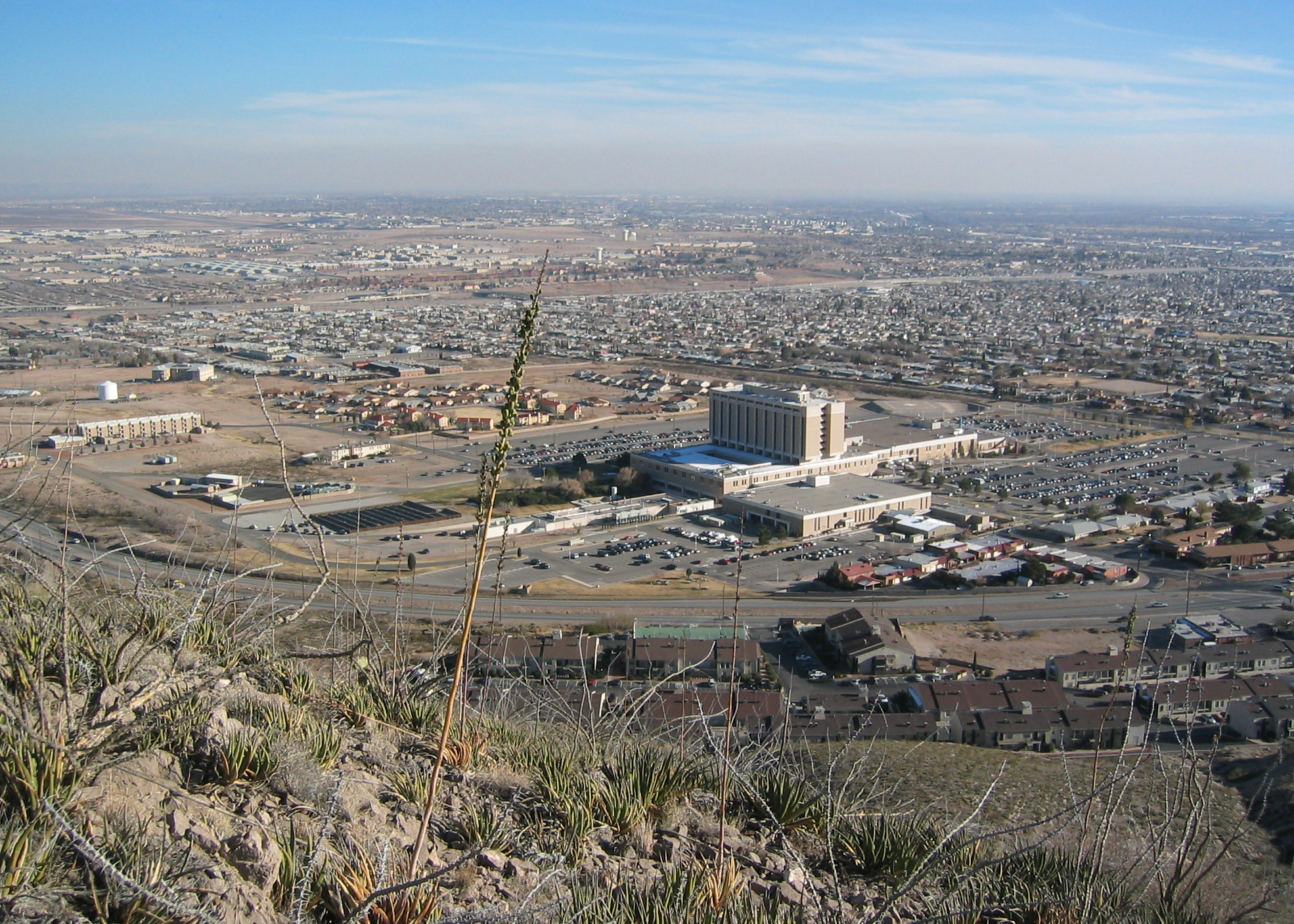 William Beaumont Army Medical Center viewed from part way up Mount Sugarloaf, Dec. 2002